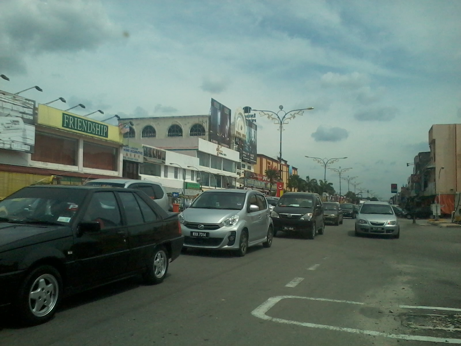 Jalan Sultan Abdul Samad